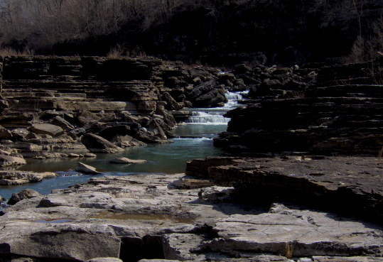 The Caney Fork River flowing through the Great Falls Gorge at Rock Island State Park, located in the Southeastern United States. When the river is at higher water levels, it completely fills the gorge and the surrounding rock beds.